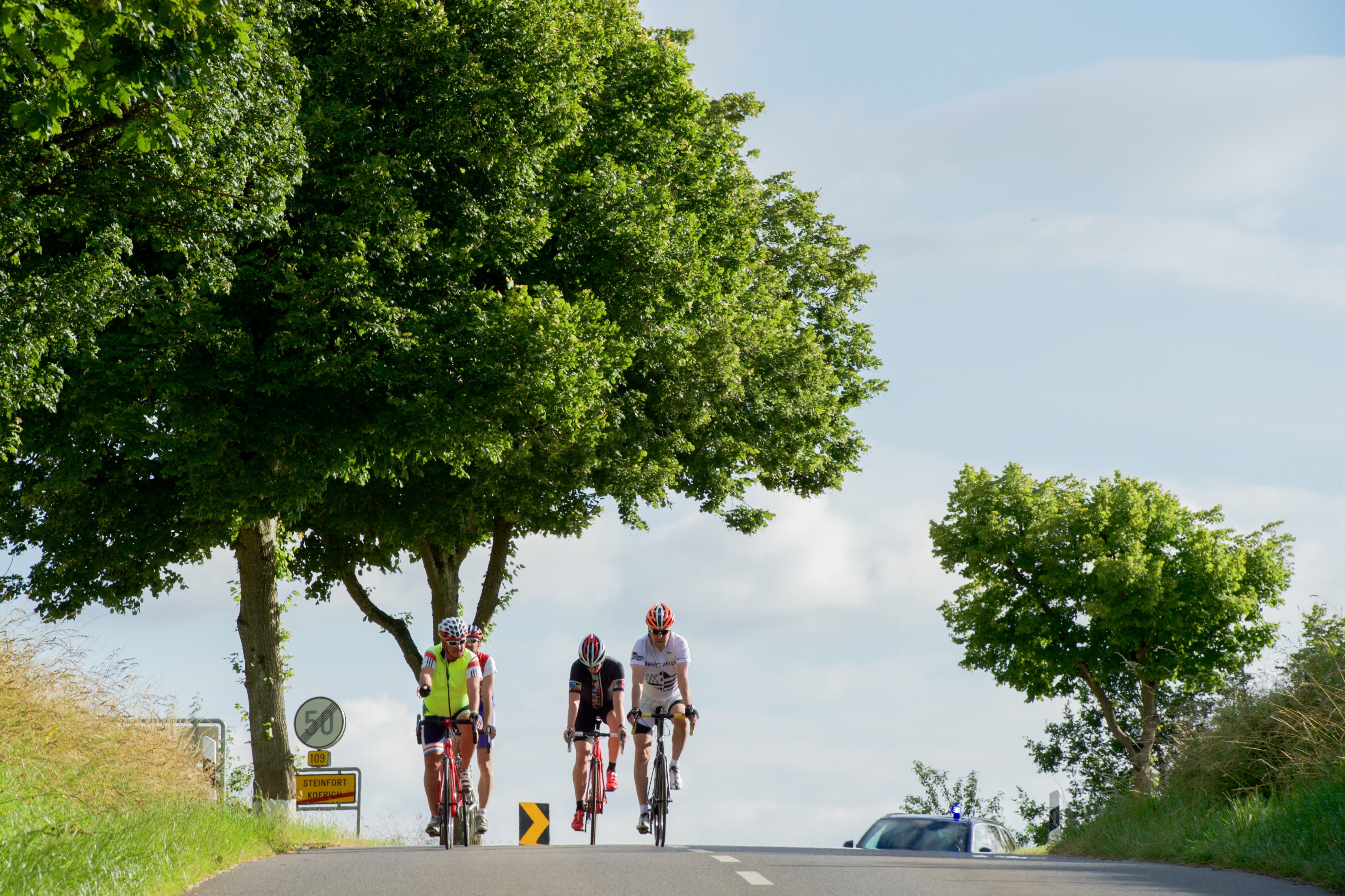 U.S. Secretary of State John Kerry, joined by Luxembourgian Foreign Minister Jean Asselborn and national biking hero Andy Schleck, rides his bike on July 16, 2016, outside Steinfort, Luxembourg, after the Secretary held a series of bilateral meetings with Luxembourgian officials. [State Department photo/ Public Domain]